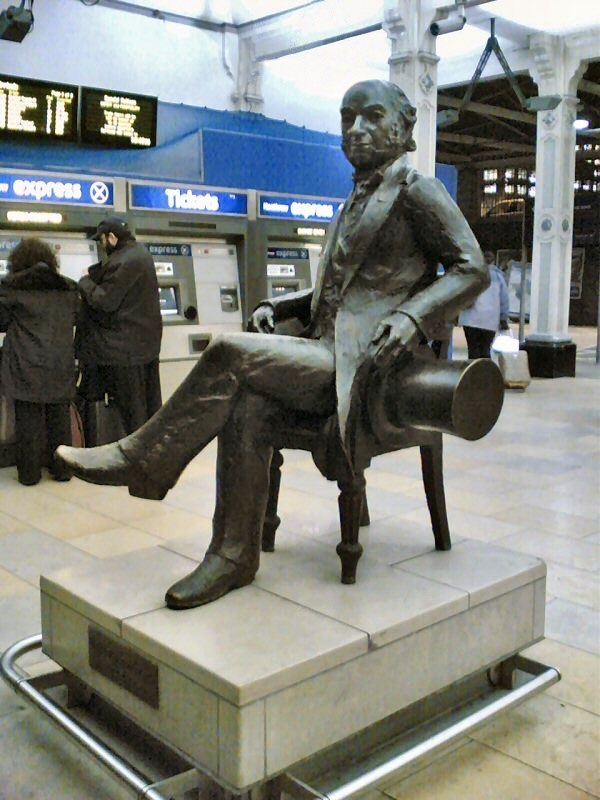 Bronze statue of Isambard Kingdom Brunel, by John Doubleday. It is situated in the main (side) entrance to Paddington Station in London, UK.